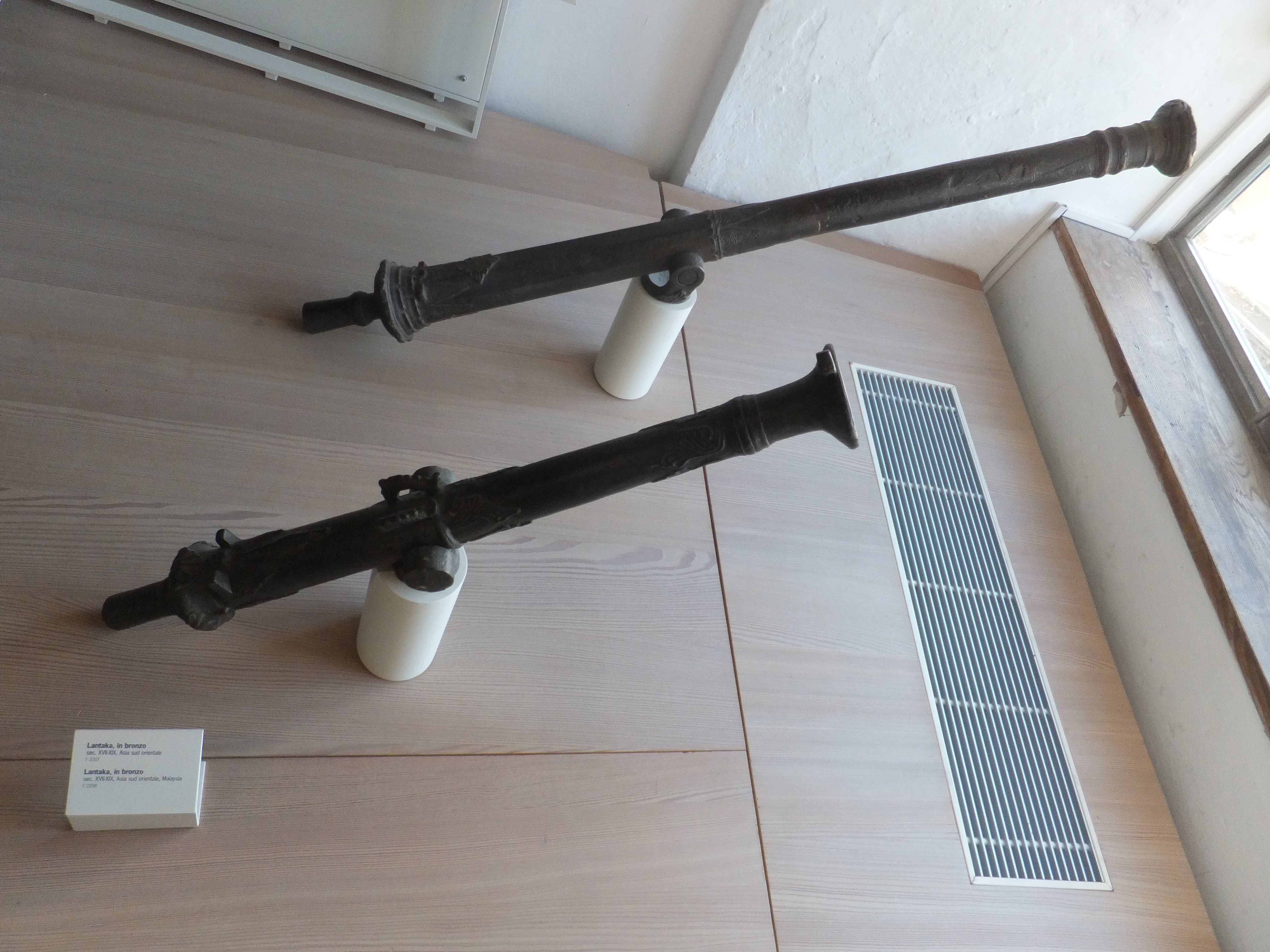 Two lantakas at the Italian historic war museum of Rovereto